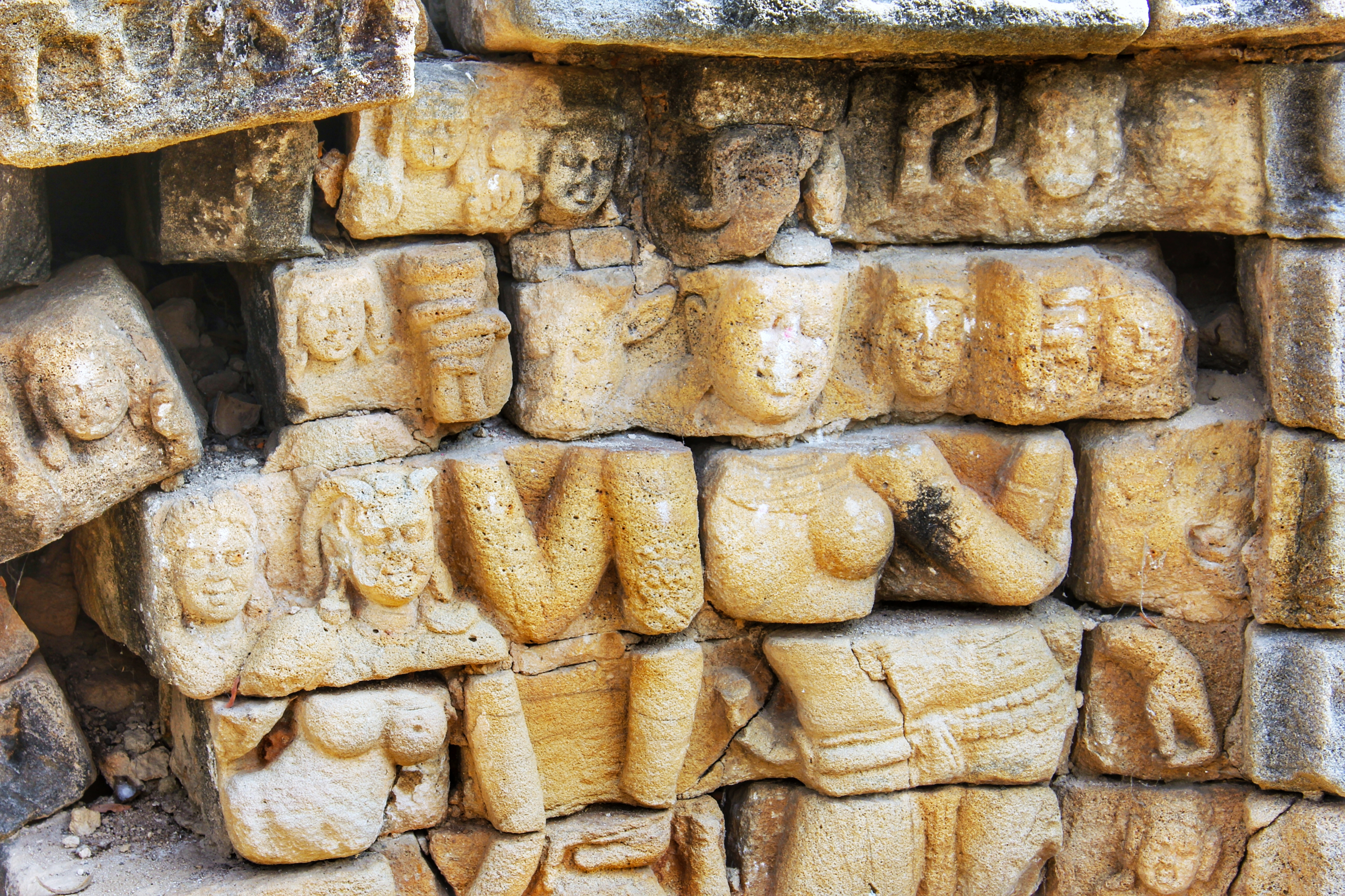 Devunigutta Temple In Kottur Village, Mulugu Mandal, Jayashankar Bhupalapally District, Telangana State